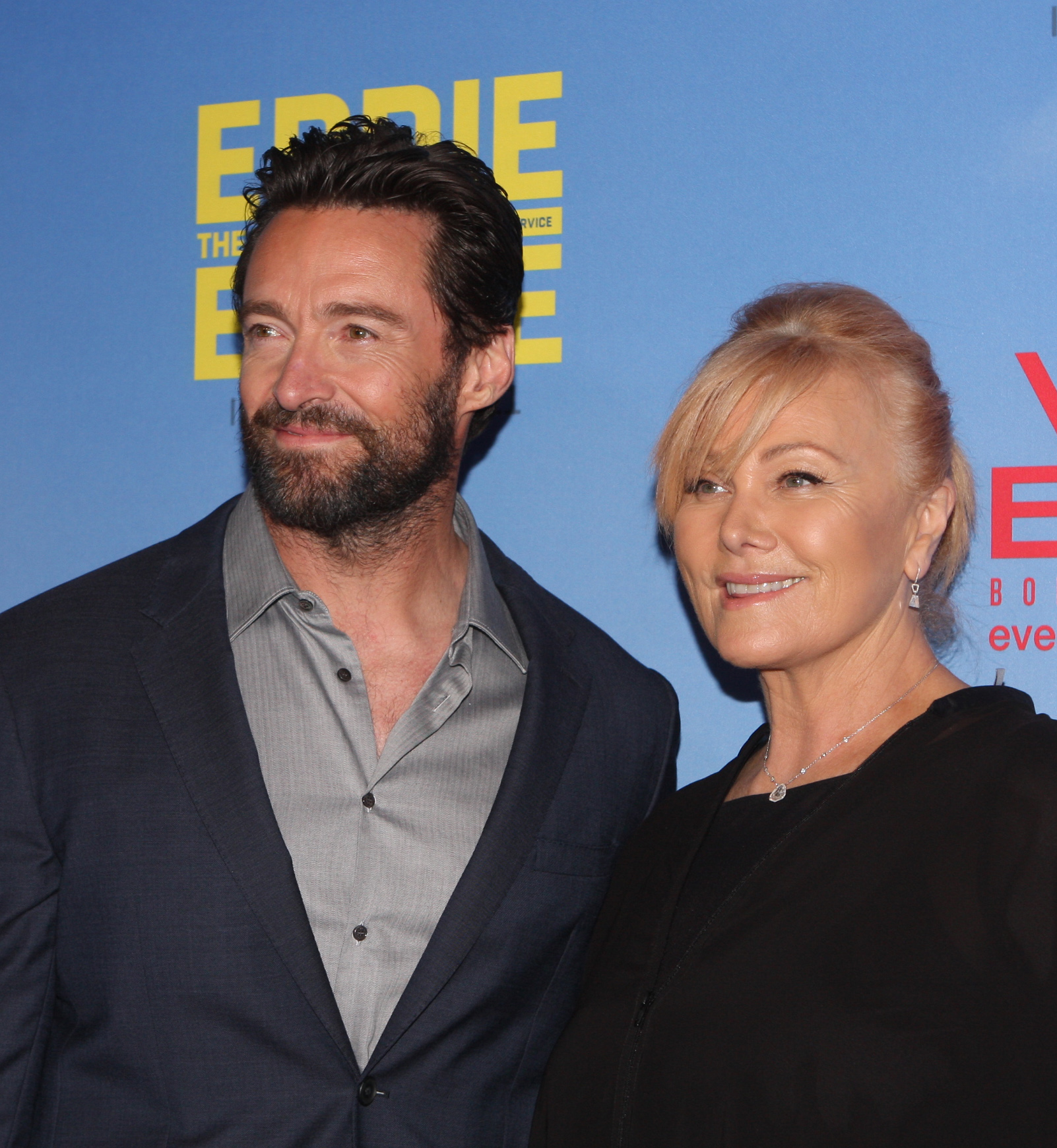 Eddie The Eagle Australian Premiere, 30th March event Bondi Junction